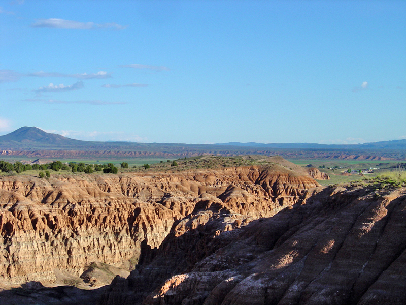 Cathedral Gorge State Park with Panaca area of Lincoln County, Nevada. Looking south from U.S. 93 viewpoint.